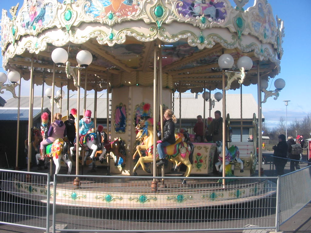 Carousel horses in Reykjavik Zoo and Family Park, Iceland.